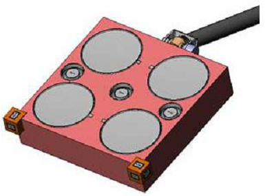 Prometheus 1 spacecraft thruster pod